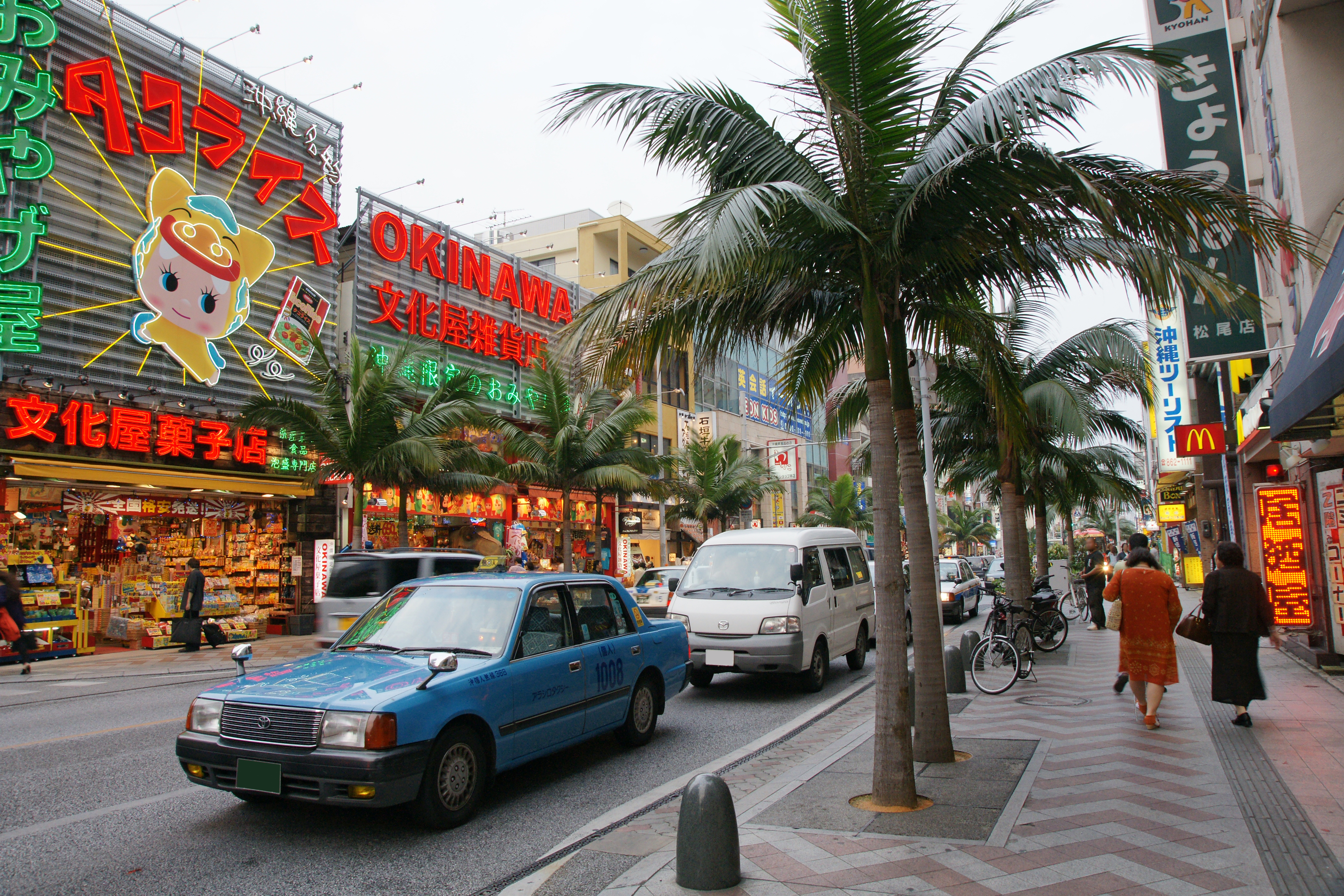 Kokusai-dori (Kokusai street), Naha, Okinawa prefecture, Japan